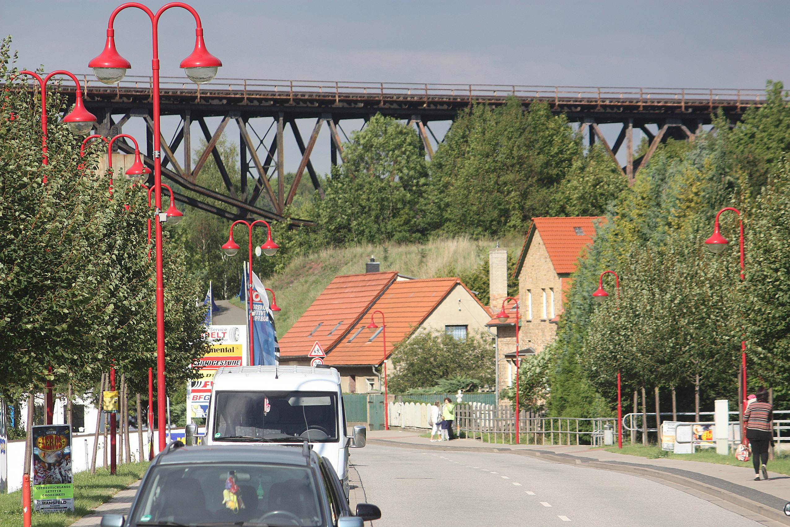 Mansfeld, railway bridgeThis is a photograph of an architectural monument. 65399